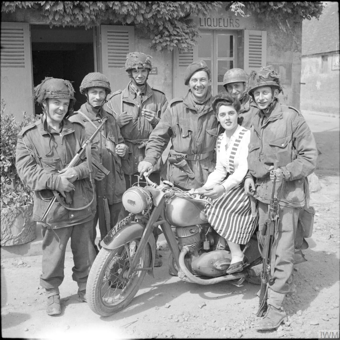 THE BRITISH ARMY IN THE NORMANDY CAMPAIGN 1944. Glider troops pose with a local French girl on a captured German motorcycle.